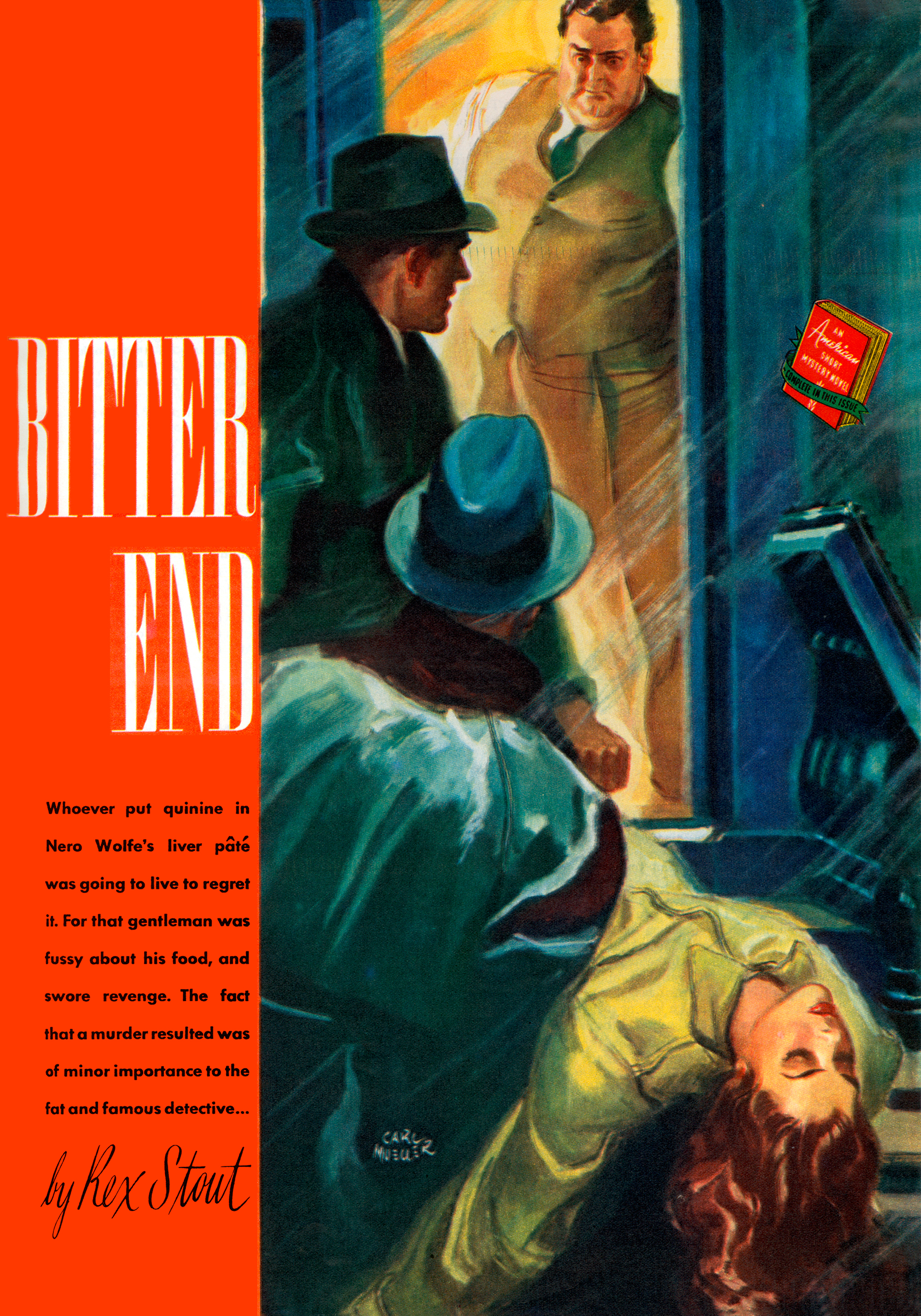 Title page preceding The American Magazine first printing of "Bitter End" (1940), a Nero Wolfe novella by Rex Stout